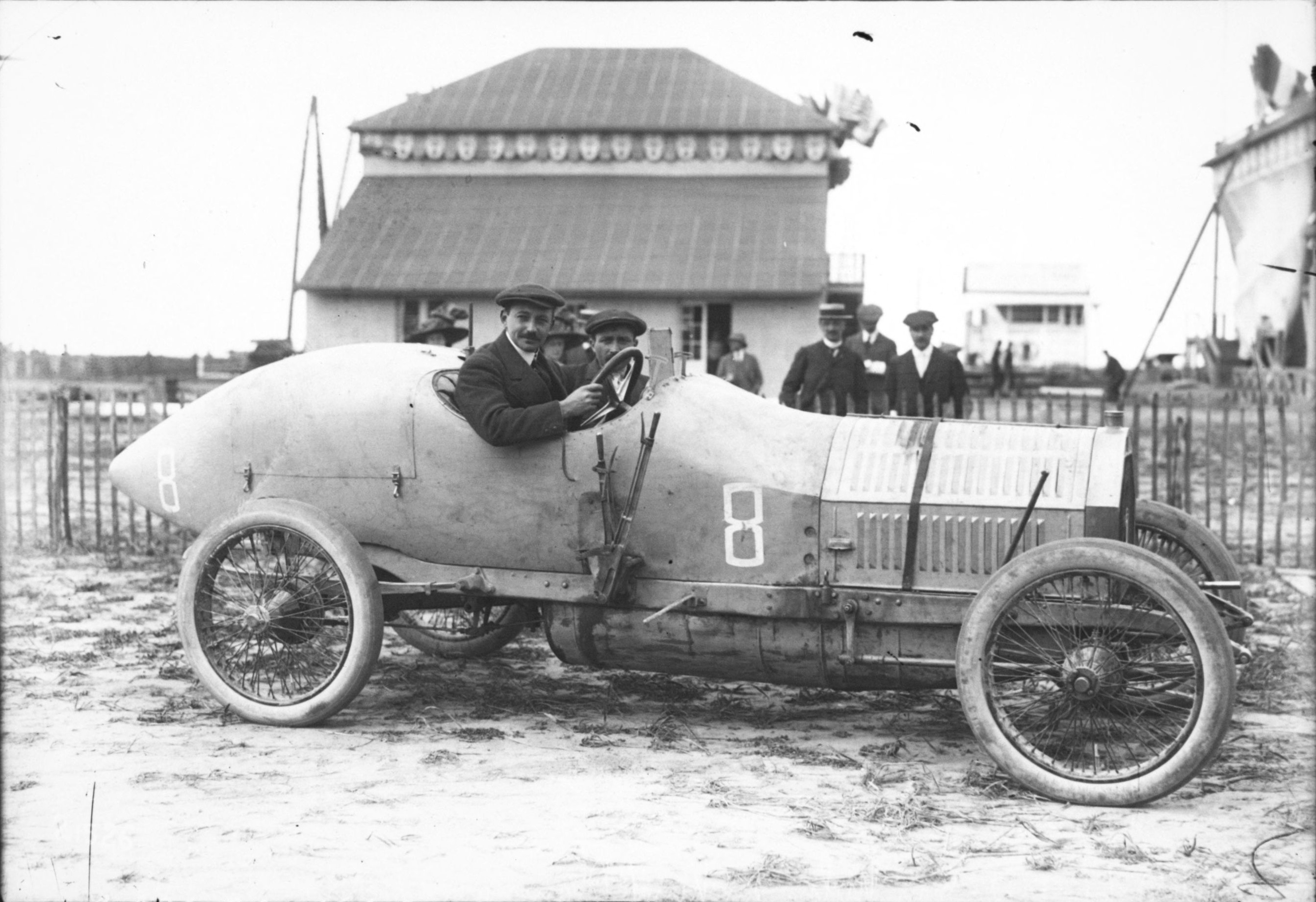 Léon Molon in his Vinot-Deguignand at the 1912 French Grand Prix at Dieppe.